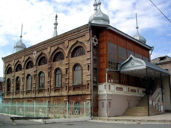 Qırmızı Qəsəbə (formerly in